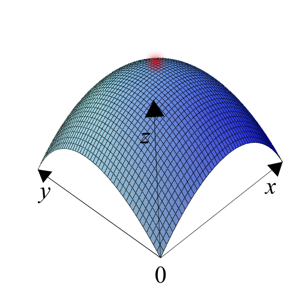 Paraboloid surface with a marked maximum point.